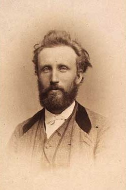 Niels Anders Bredal (1841-1888), Danish landscape painter